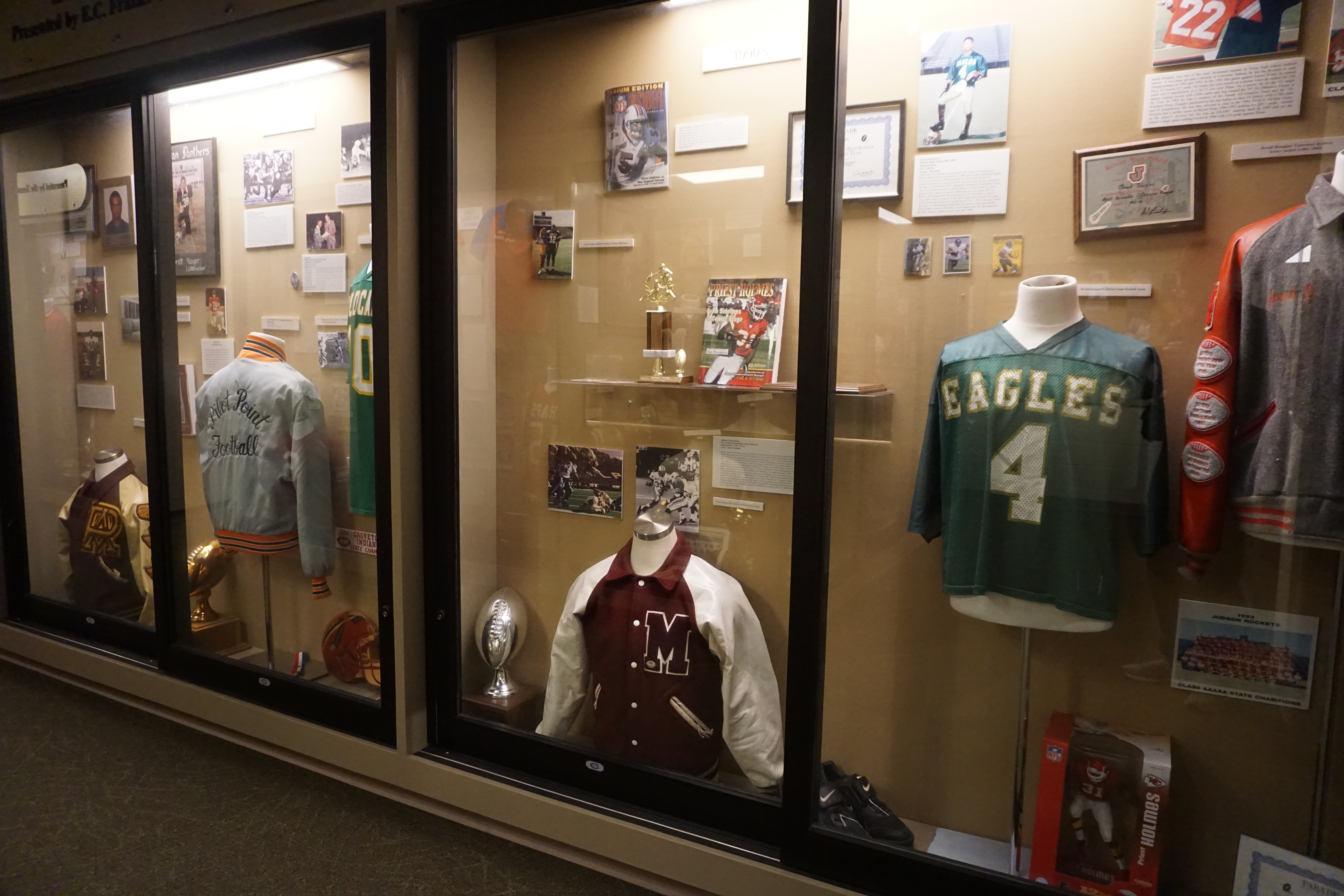 The Texas High School Football Hall of Fame at the Texas Sports Hall of Fame in Waco, Texas (United States).